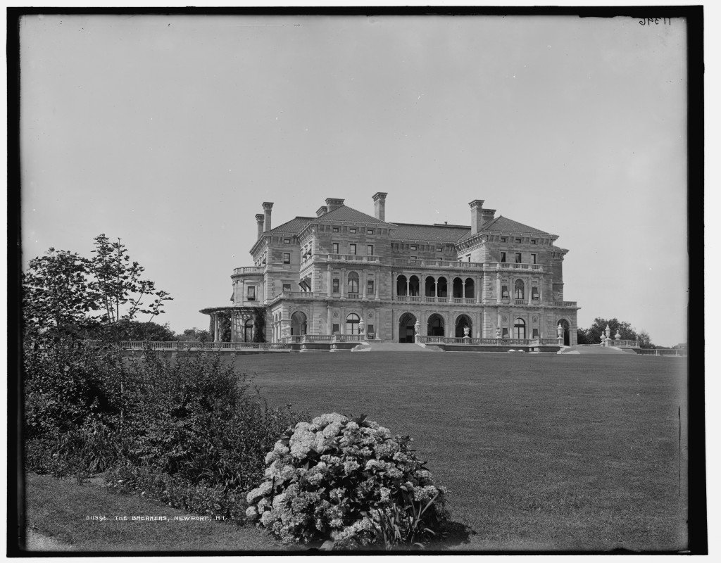 The Breakers in Newport, Rhode Island, 1899